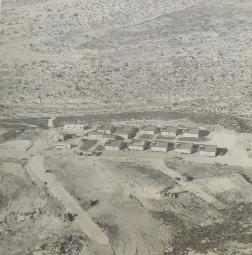 Arial photo of Nahliel - 1986